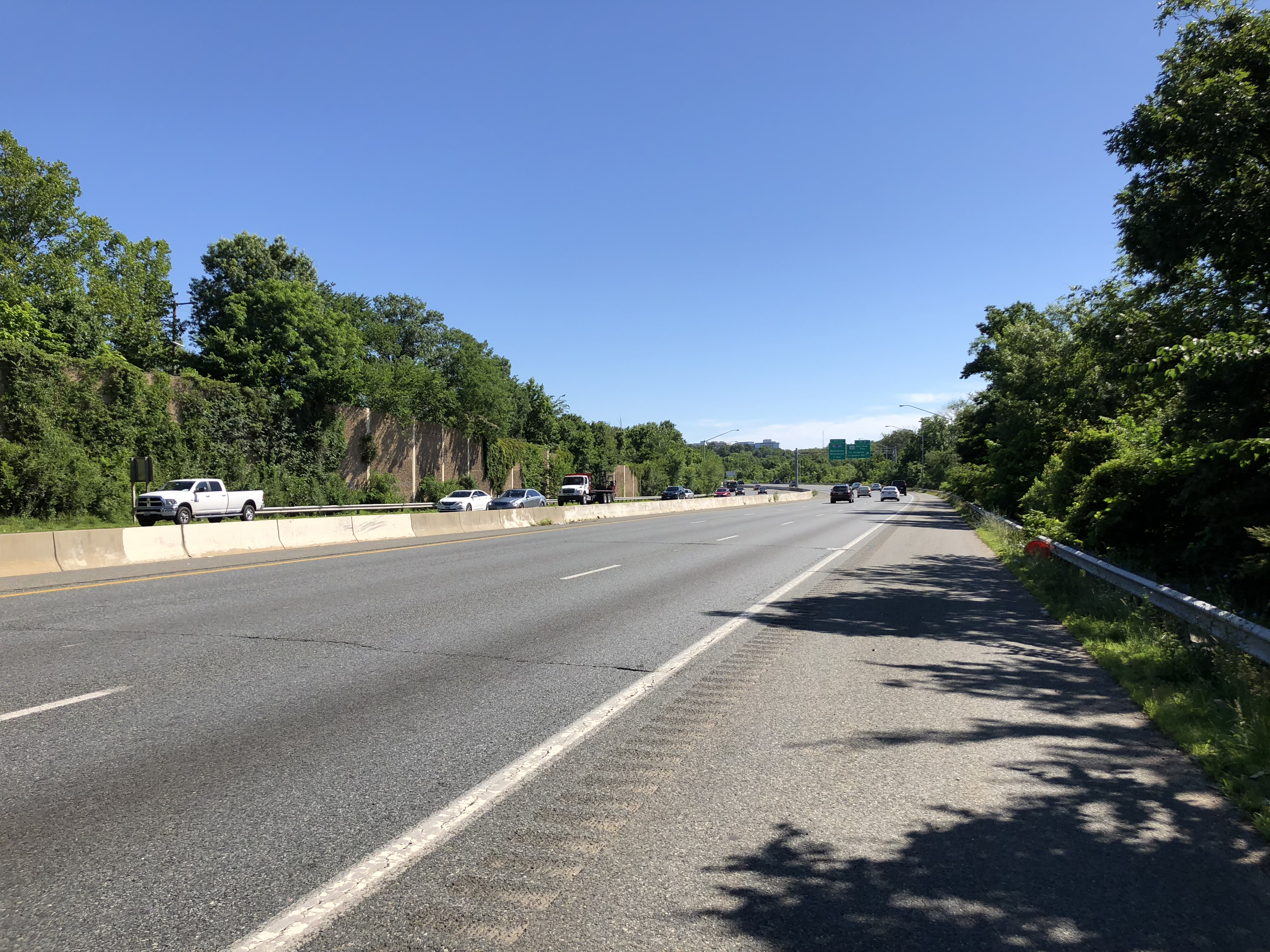 View east along U.S. Route 50 (John Hanson Highway) between Exit 3 and Exit 5 in Landover Hills, Prince George's County, Maryland